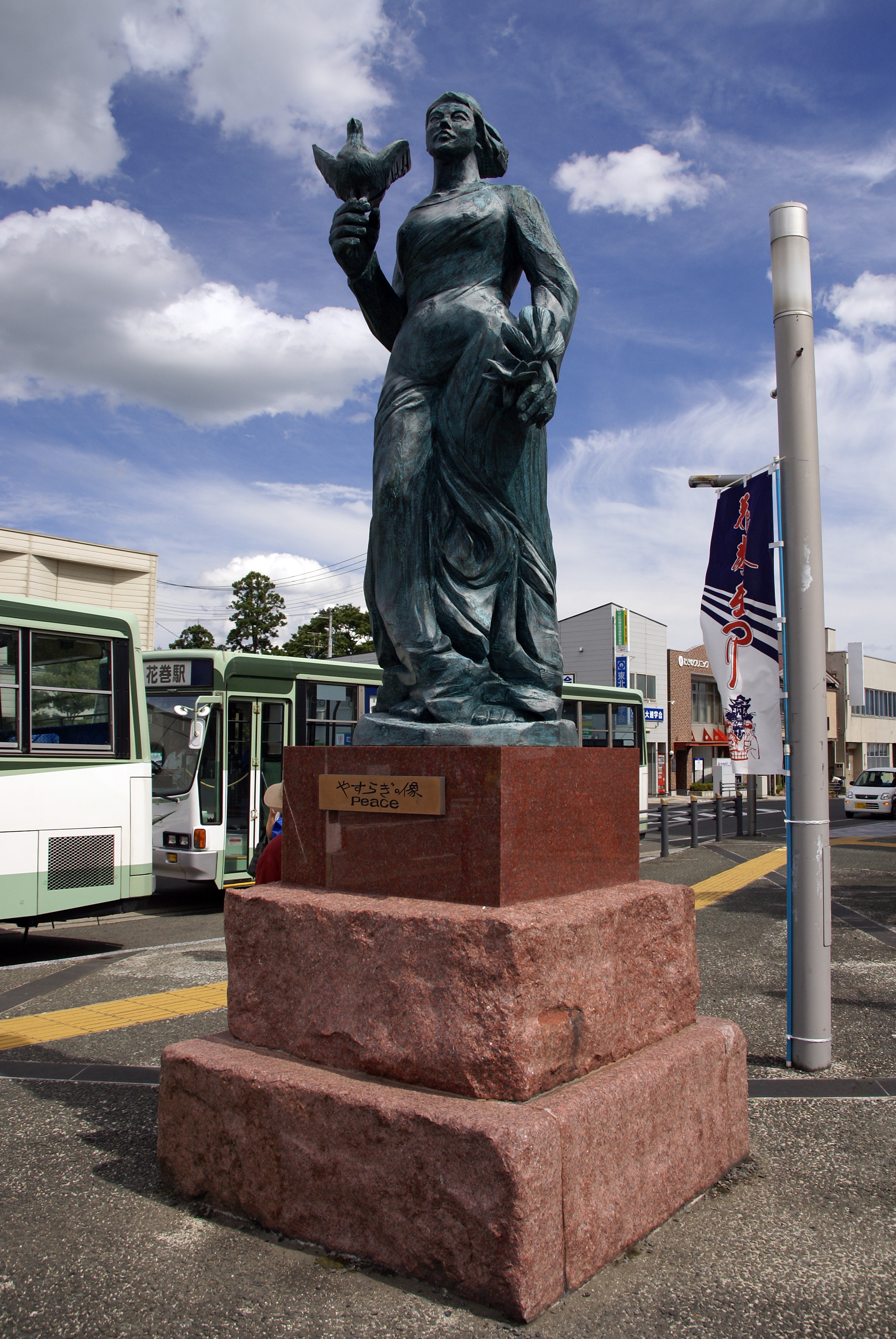 Hanamaki Station in Hanamaki, Iwate prefecture, Japan